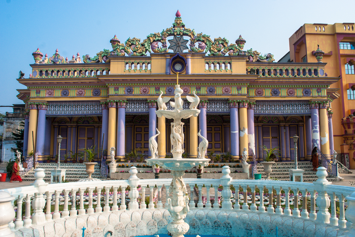 Sree Sree Sitalanath Swamiji Temple, another view